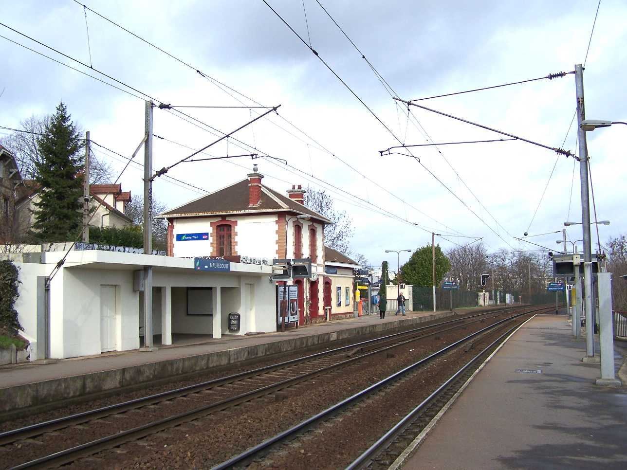 Railway station of Maurecourt in Andrésy (Yvelines, France)